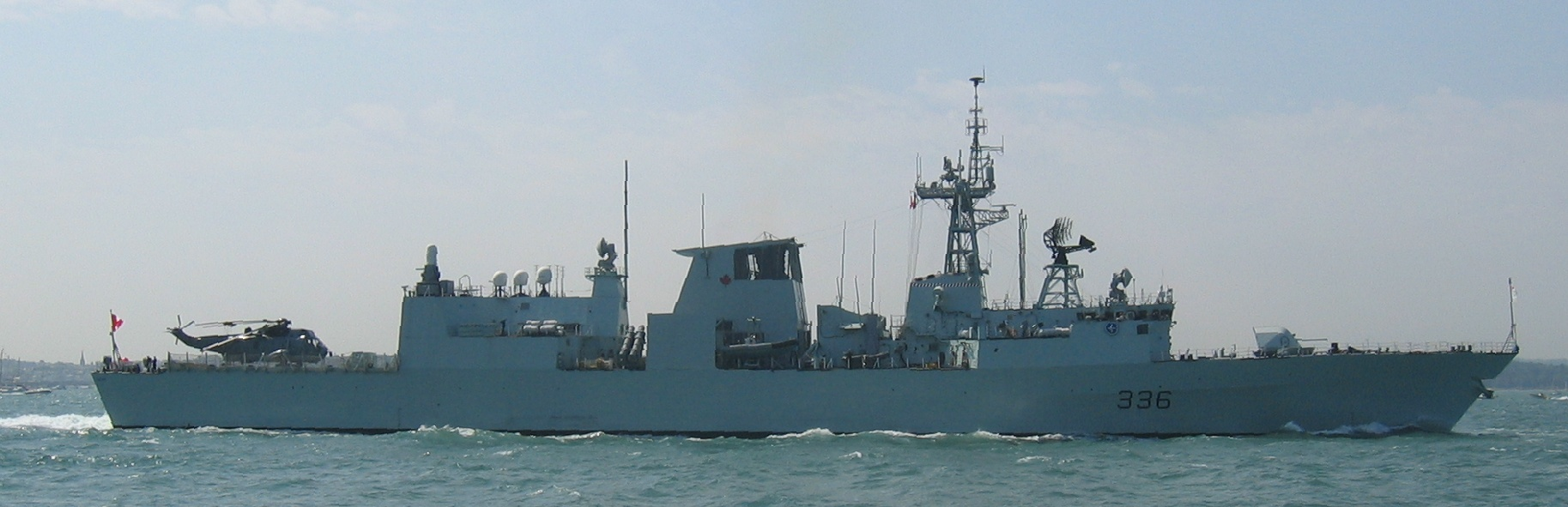 The Halifax class frigate HMCS Montreal (FFH 336)